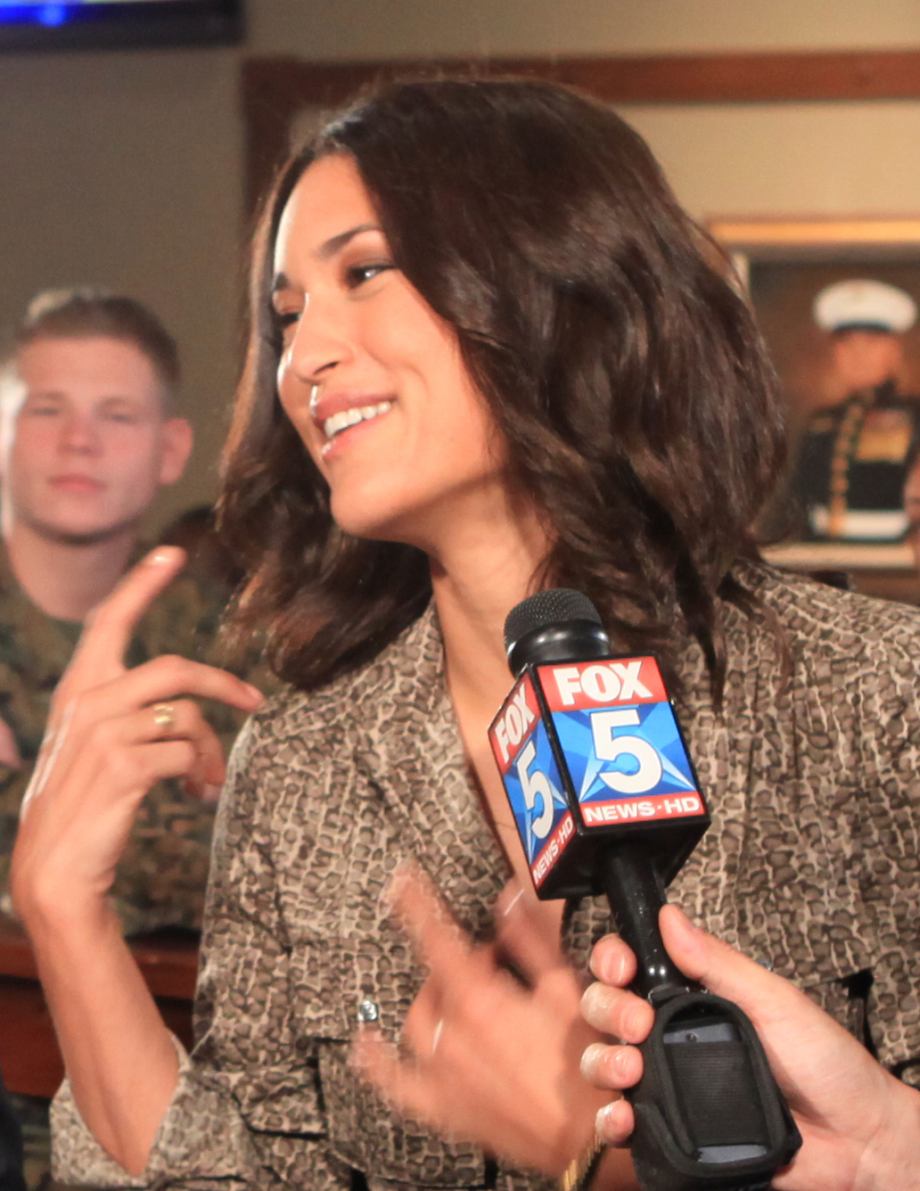 Twilight movie actress Julia Jones.